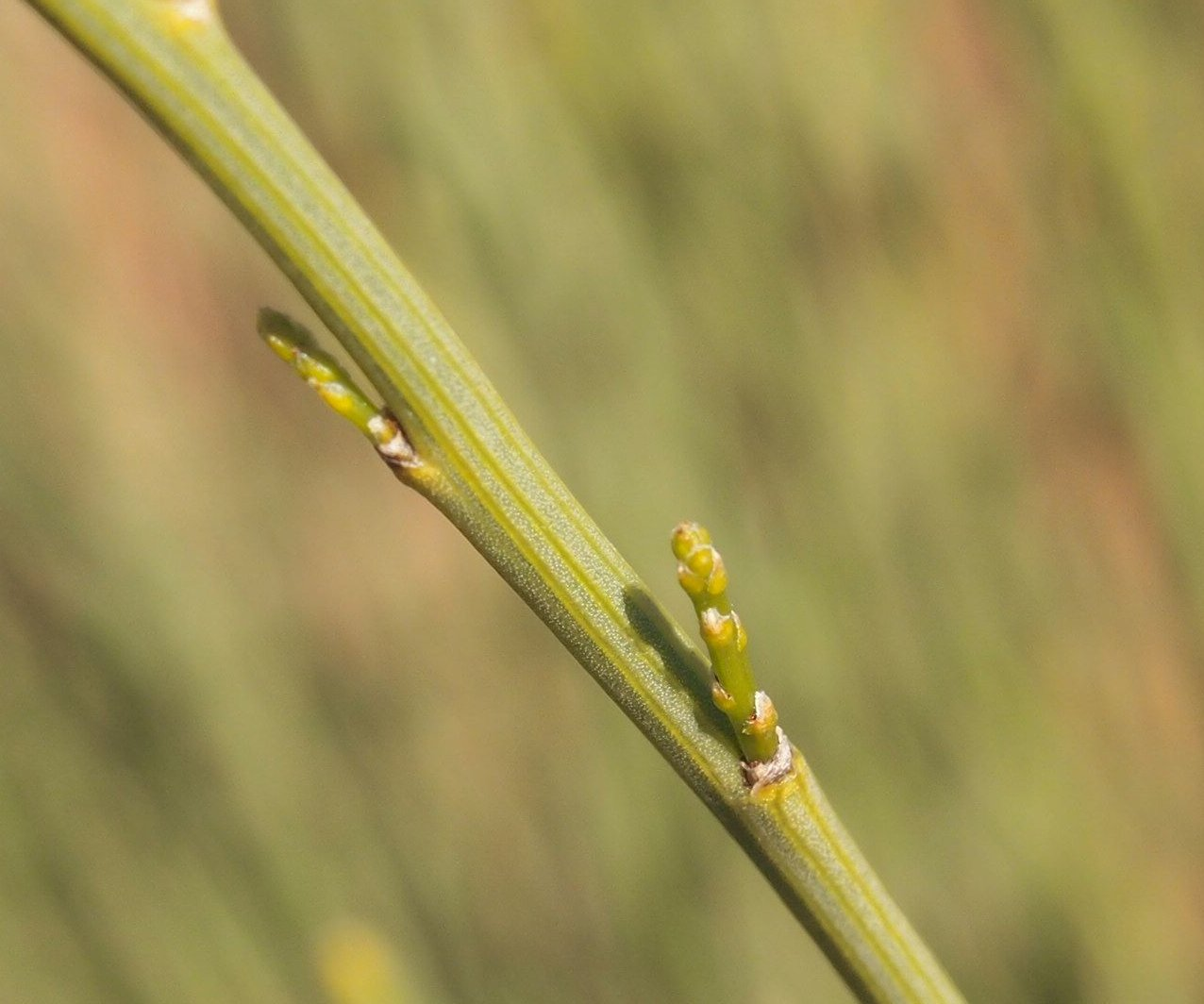 Exocarpos sparteus flower